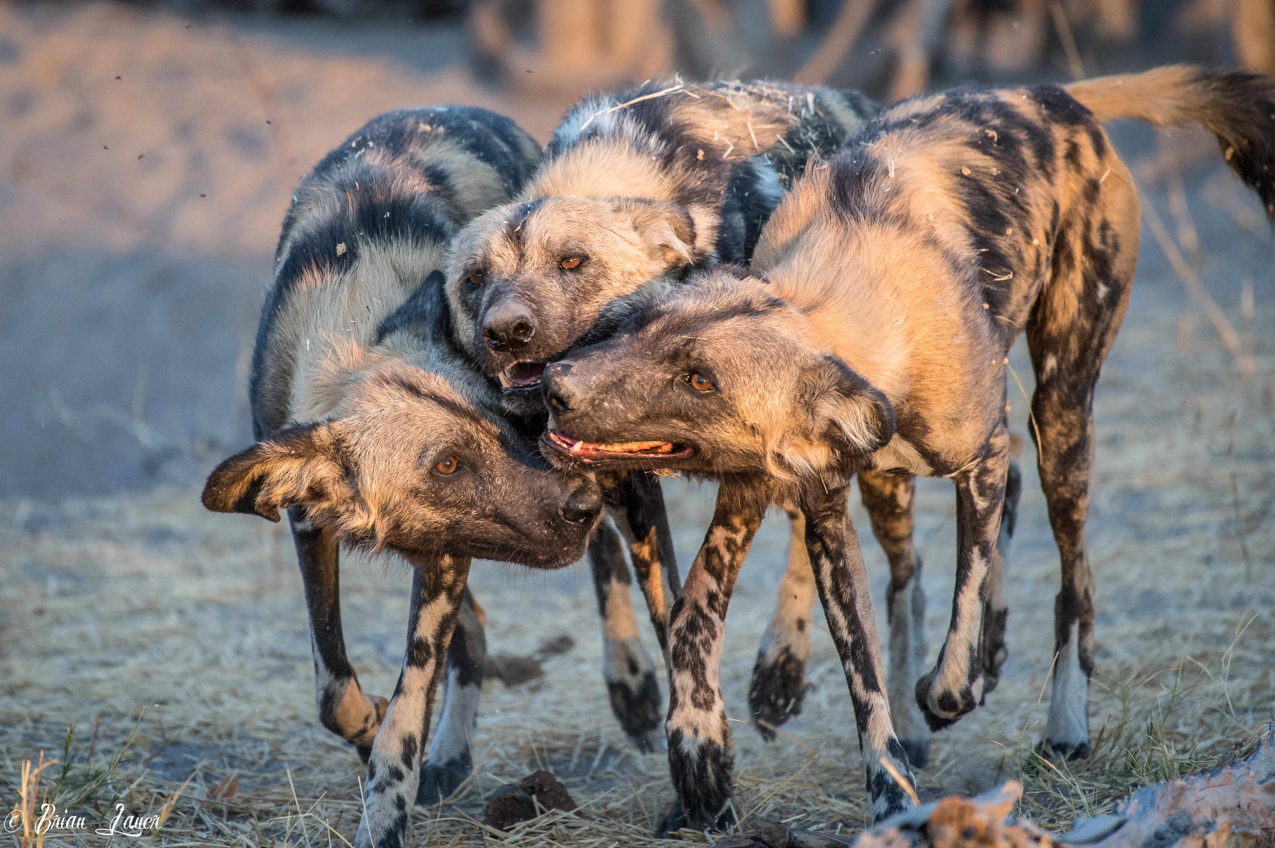 Chitabe-29